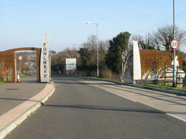 Entrance to Fowlmead Country Park The name of the area and local farm is Foulmead, but I guess that doesn't sell it well!